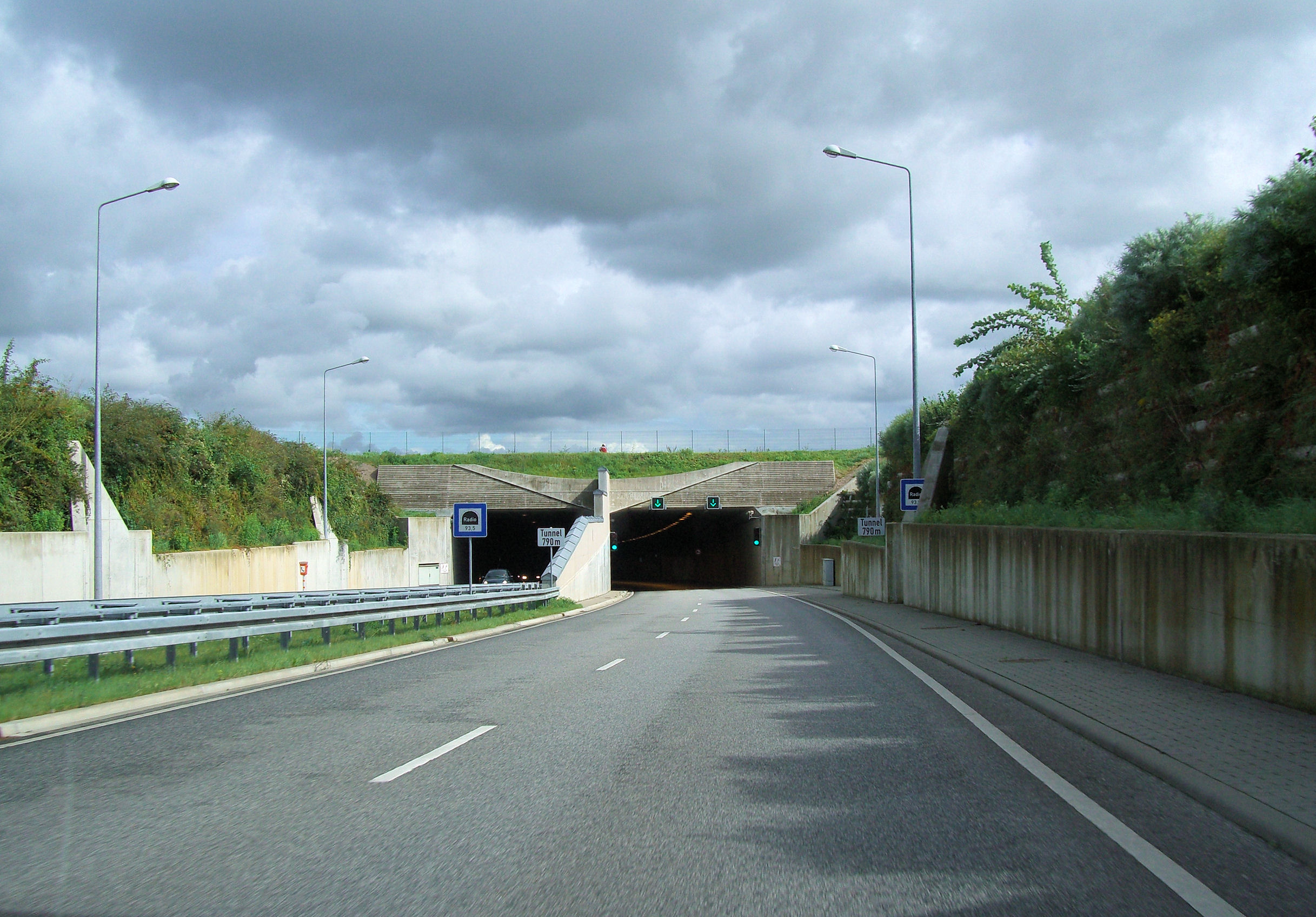 Warnowtunnel in Rostock, Mecklenburg-Vorpommern, Germany